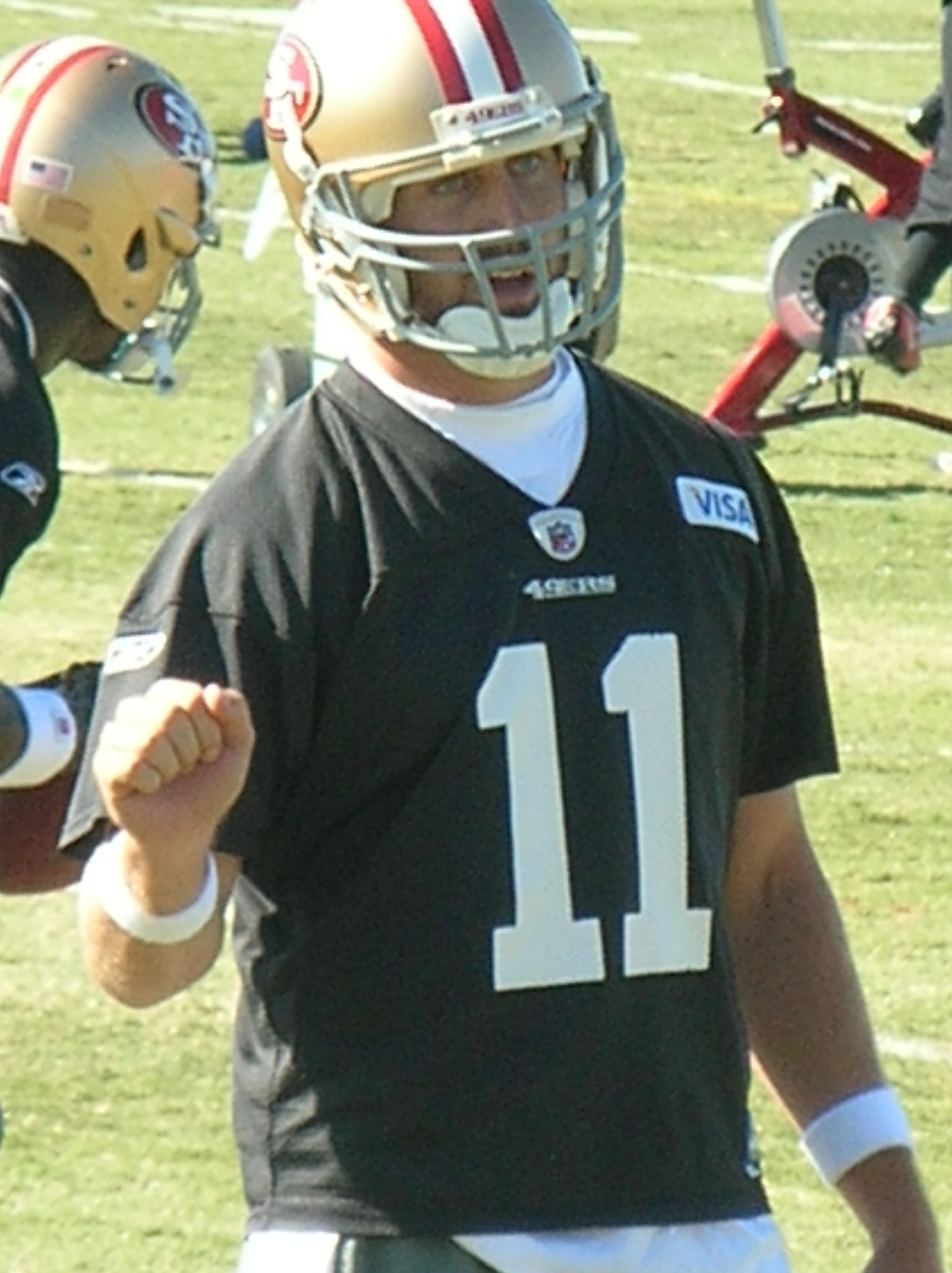 San Francisco 49ers quarterback Alex Smith at training camp in Santa Clara, California.